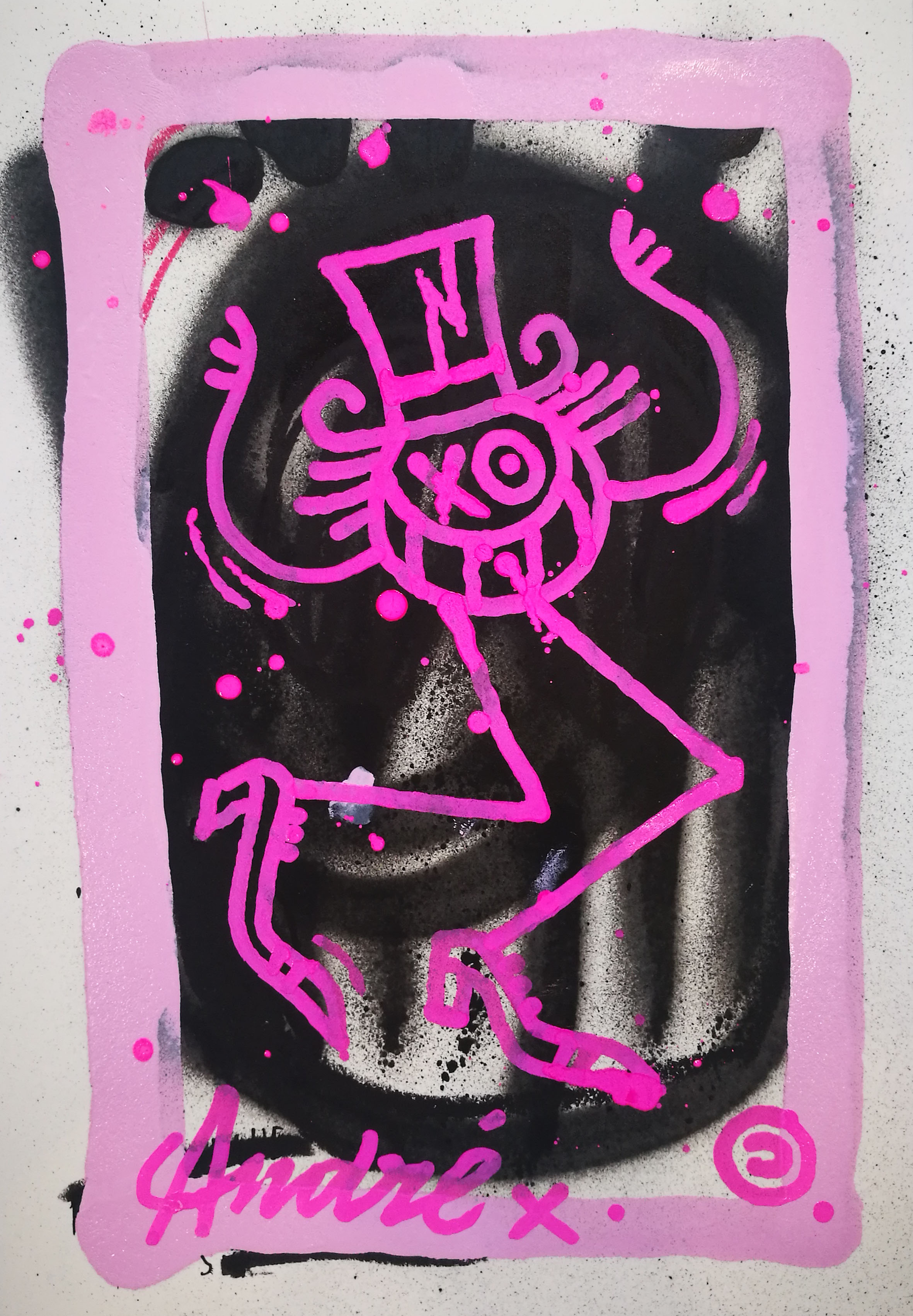 André x Magda Danysz